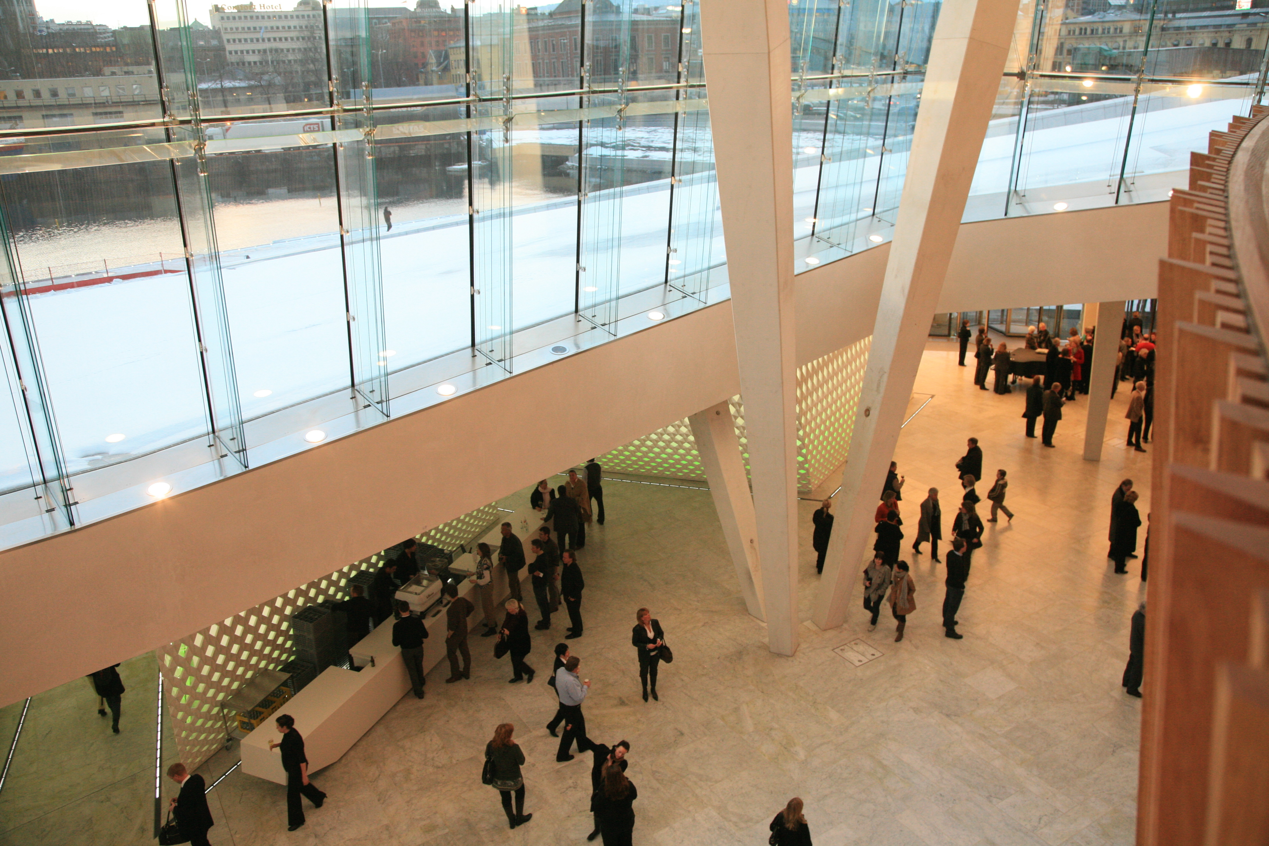 Interior of Oslo Opera house. View of the lobby.